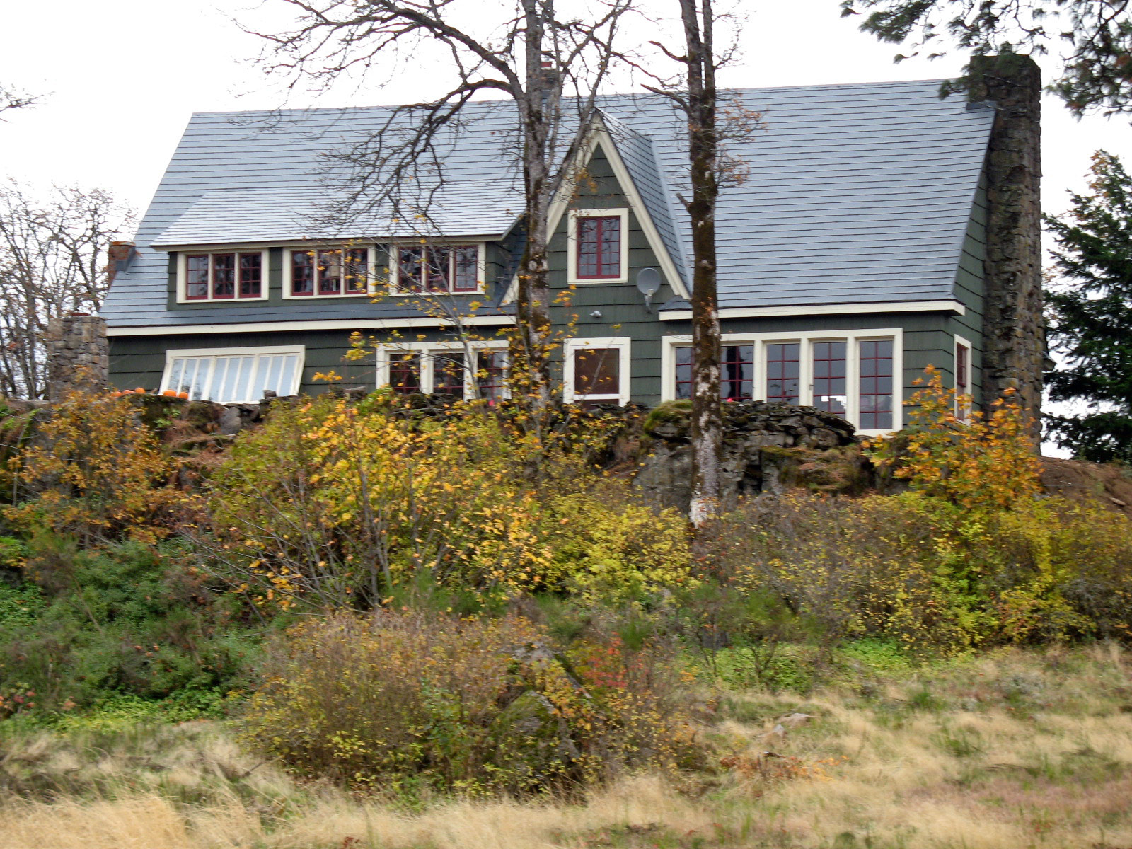 National Register of Historic Places listings in Hood River County, Oregon. Cliff Lodge, 3345 Cascade Ave, Hood River, OR. Photographed October 28, 2009 from the north side of Cascade Ave. east of the intersection of Mt. Adams Ave.